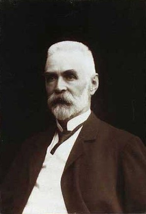 Municipal Engineer in Copenhagen and Director-General of the Danish State Railways Charles Ambt (1847-1919)